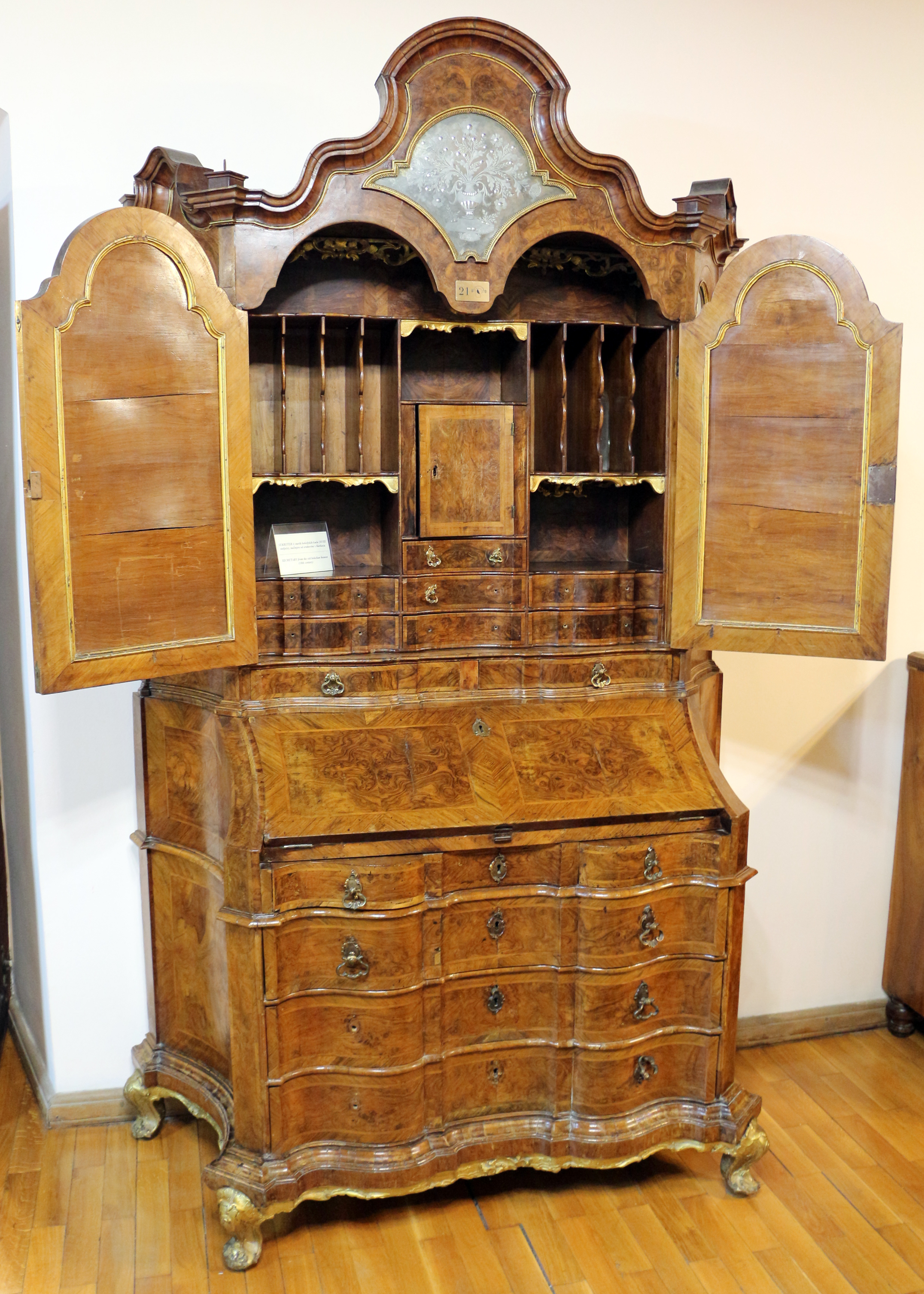 Maritime Museum of Montenegro in Kotor